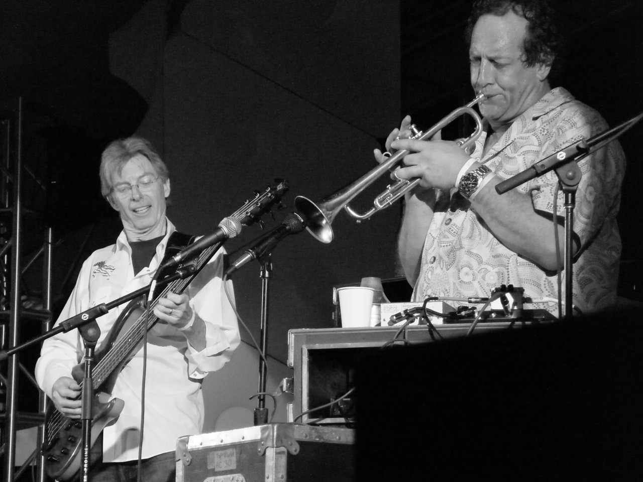 TelStar featuring Phil Lesh, Yuri's Night Out, Nasa Ames 2008